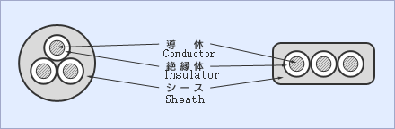 Structure of Cabtyre cable: Hashimotokōsan(橋本興産) in Nagasaki Japan released (up loaded) this file to public domain due to no Design right to describe the structure of cable, cabtyre cable, Cabtire cable or Cab tire cable.